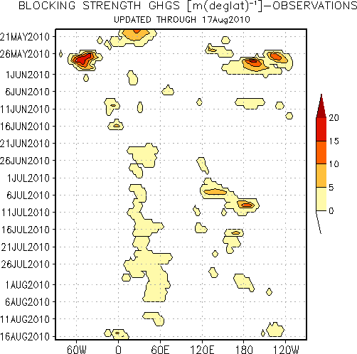 All colored regions in the Hovmöller plot depict regions where the flow is blocked according to the blocking index. The color scheme denotes the strength of the blocked flow.